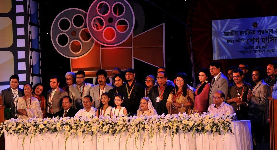 National Award Prize Ceremony 2011